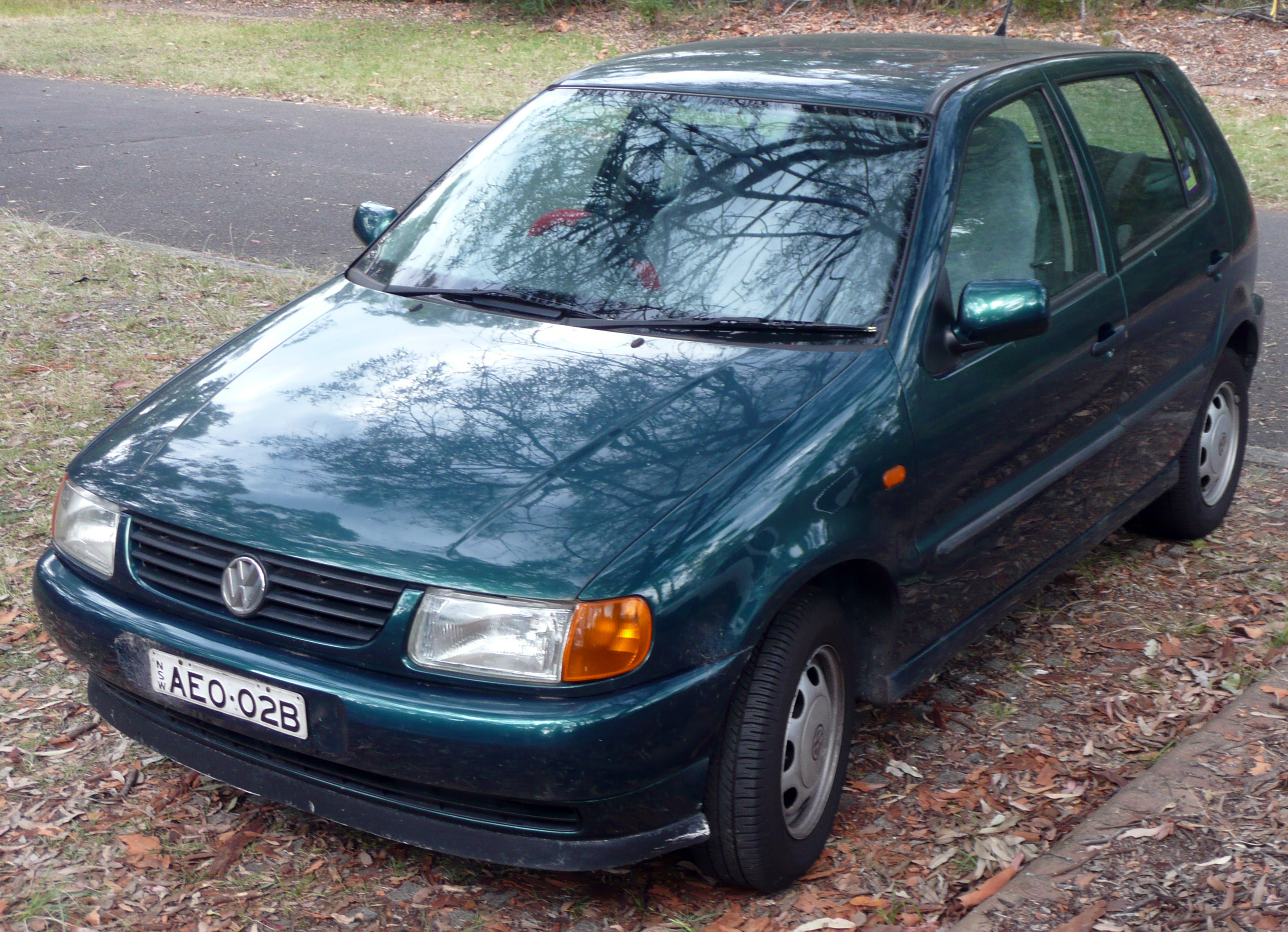 1997 Volkswagen Polo (6N) 5-door hatchback. Photographed in Audley, New South Wales, Australia.